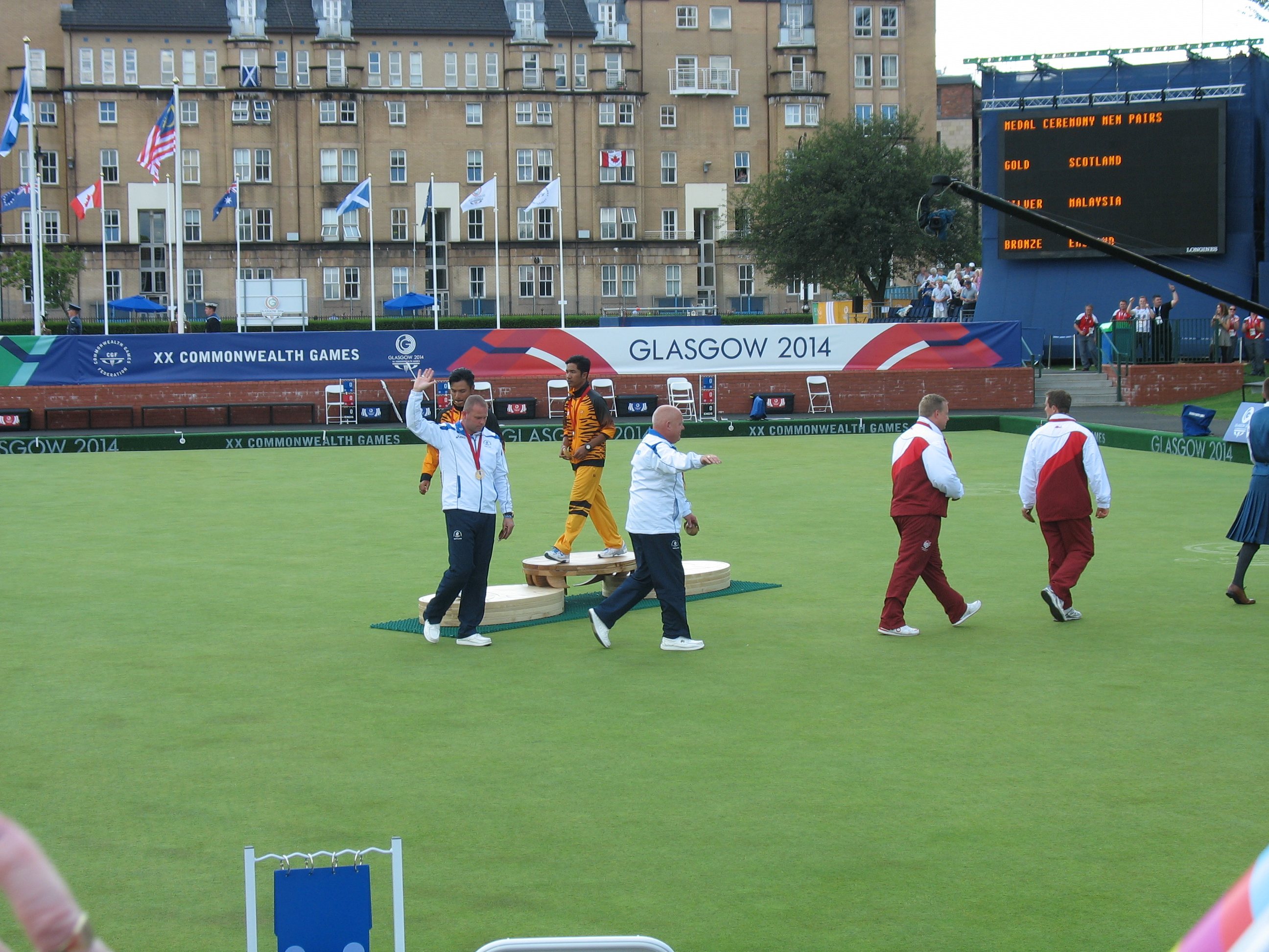 Medal award ceremony for men's doubles teams at the 2014 Commonwealth Games in Glasgow with Paul Foster & Alex Marshall (Scotland), Muhammad Hizlee Abdul Rais & Fairul Izwan Adb Muin (Malaysia) and Andrew Knapper & Sam Tolchard (England)